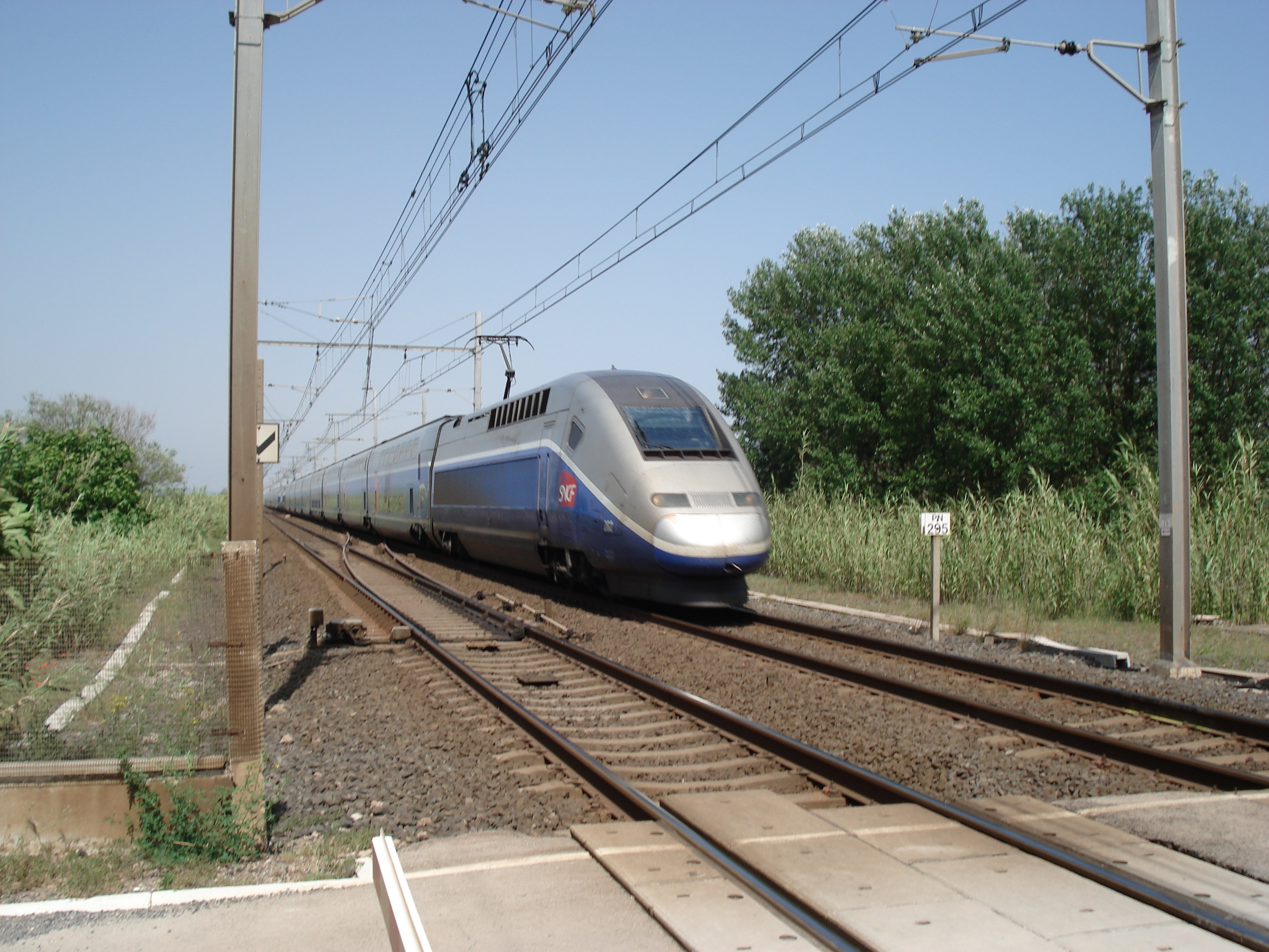 TGV Duplex near Sete in France